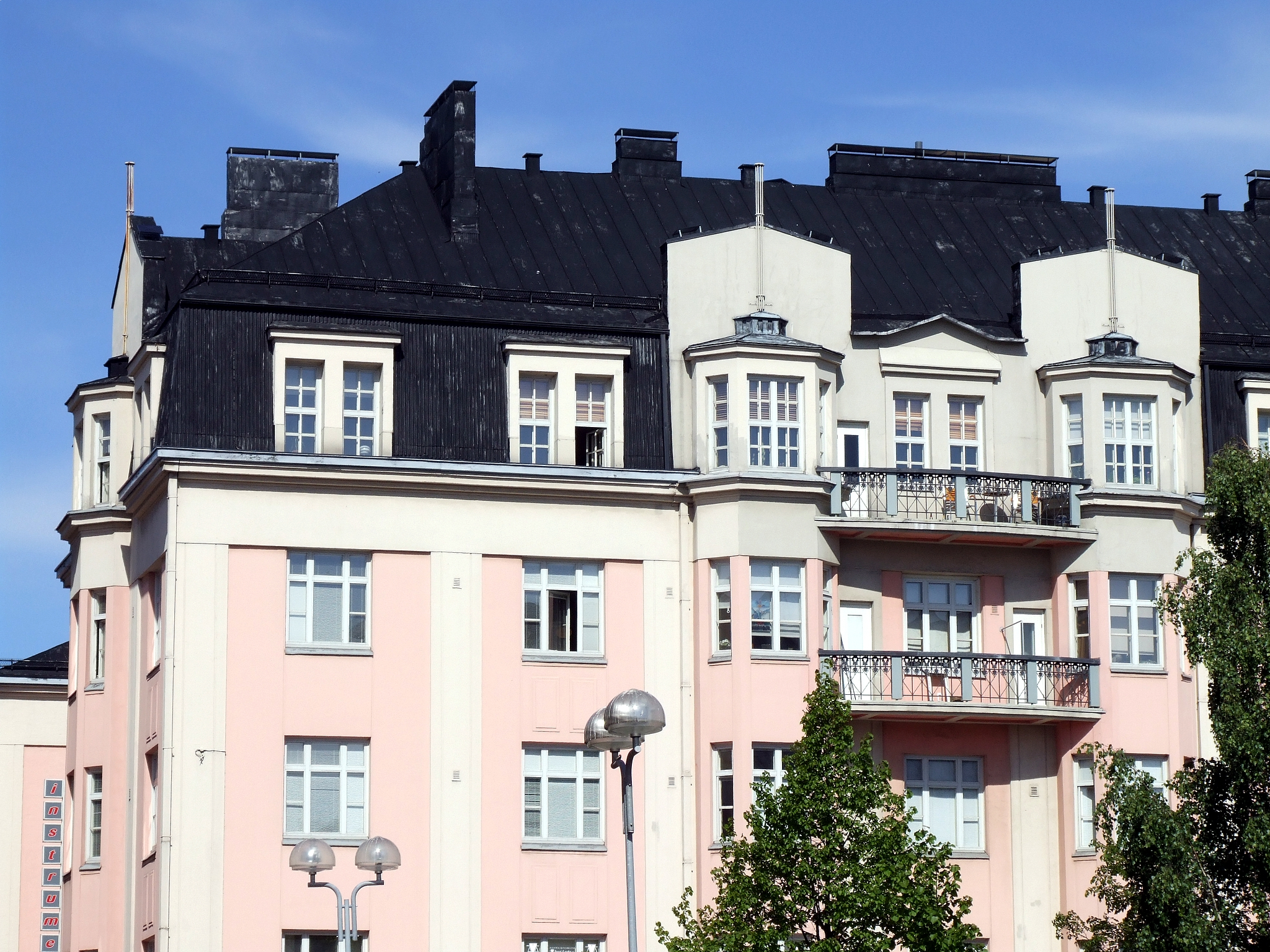 The Puistola building in Oulu (Finland) was designed by architect Harald Andersin and built 1912.